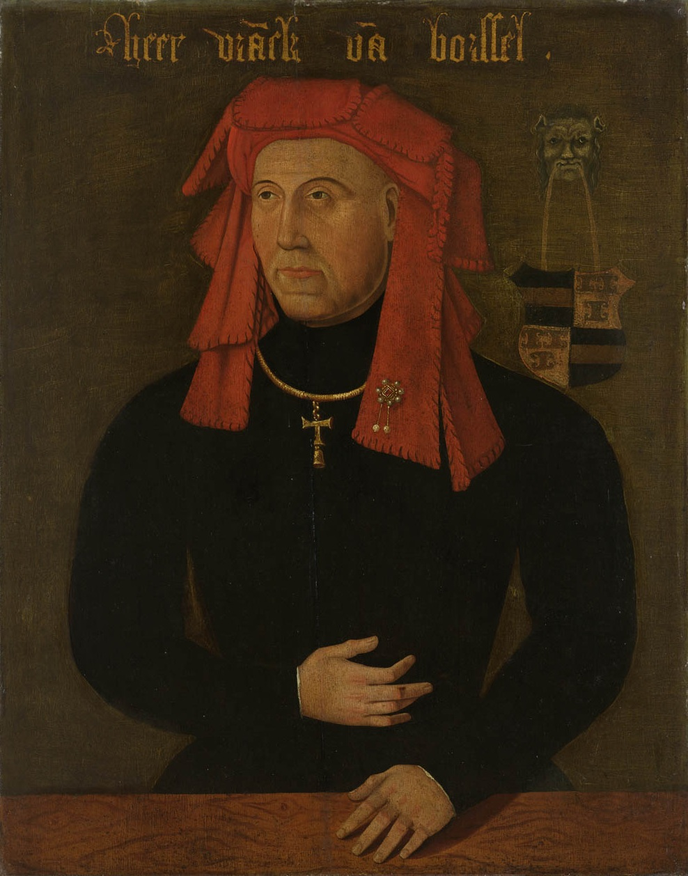 Portrait of Frank van Borselen (died 1470). Fourth husband of Jacqueline of Bavaria. Stadtholder of Zeeland. At half-length, standing behind a wooden table, slightly facing left. Carrying a chain with the cross of the Order of Saint Anthony. His coat of arms top right. 16th-century copy after a lost original dating from around 1435. Pendant of File:Jacoba van Beieren (1401-1436), gravin van Holland en Zeeland.jpg.